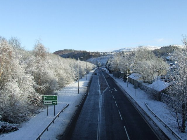 A78 Inverkip bypass Viewed from the footbridge at the marina.